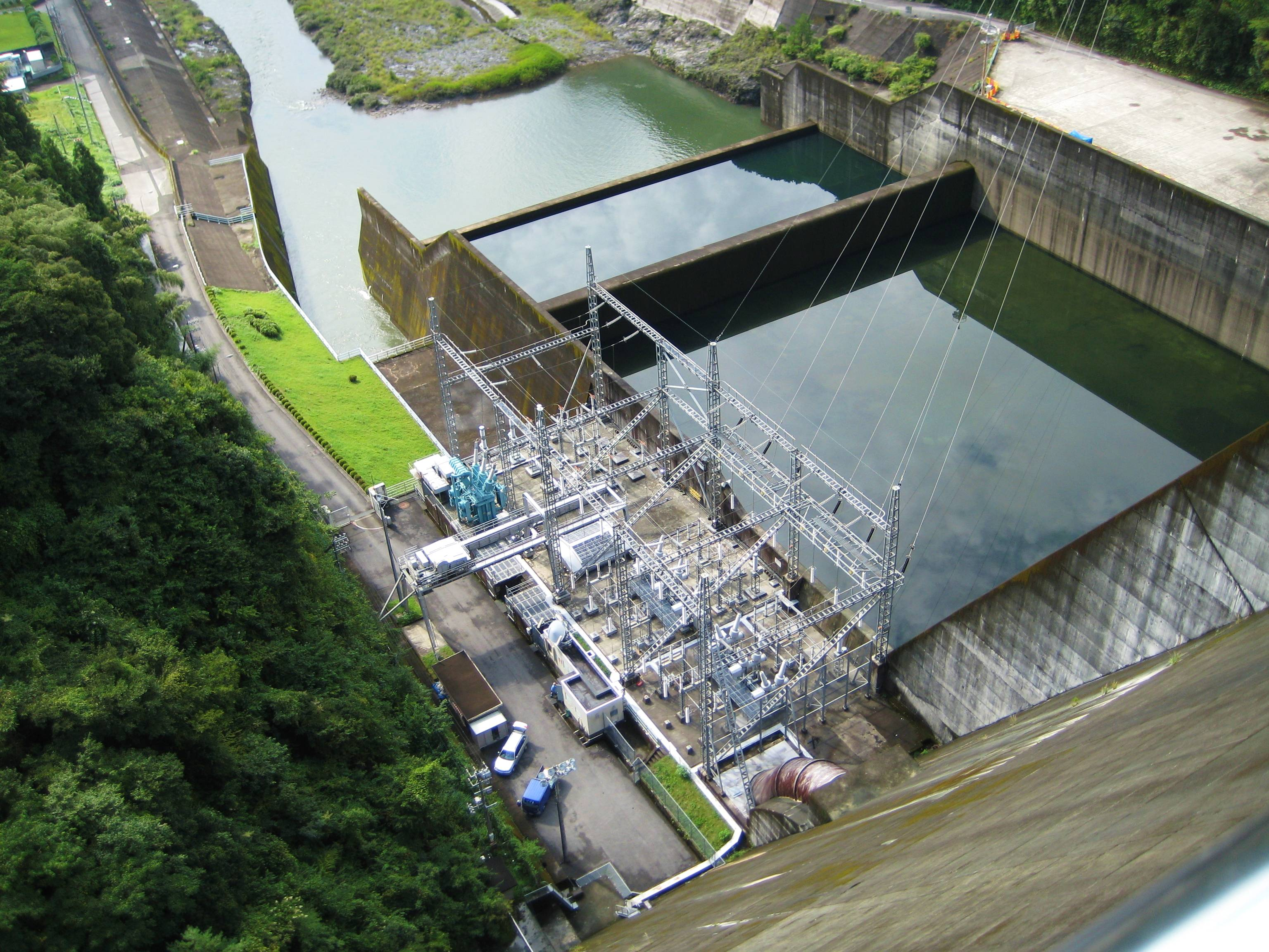 Sameura power station.